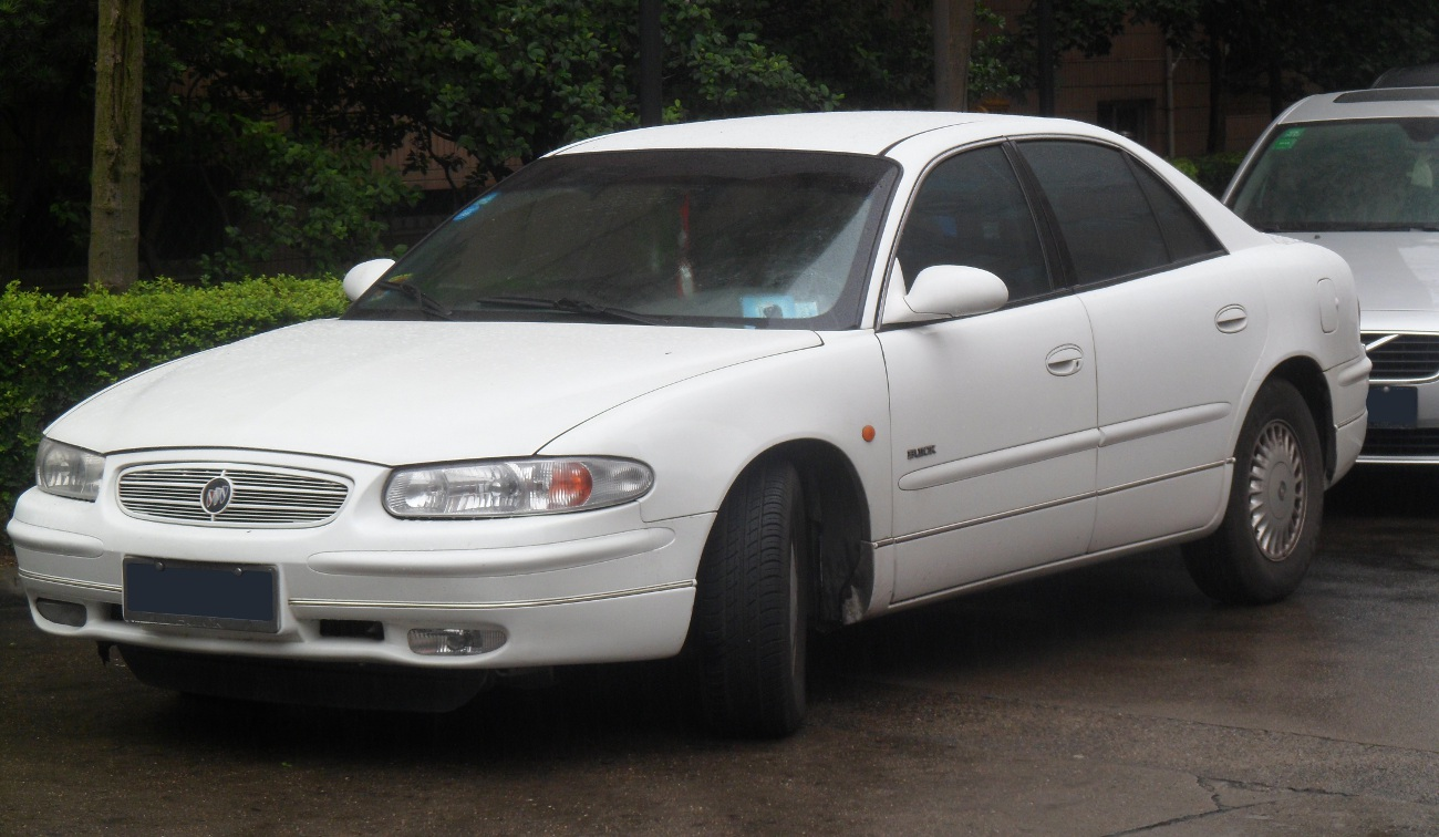 Buick "New Century" photographed in Shanghai, China.